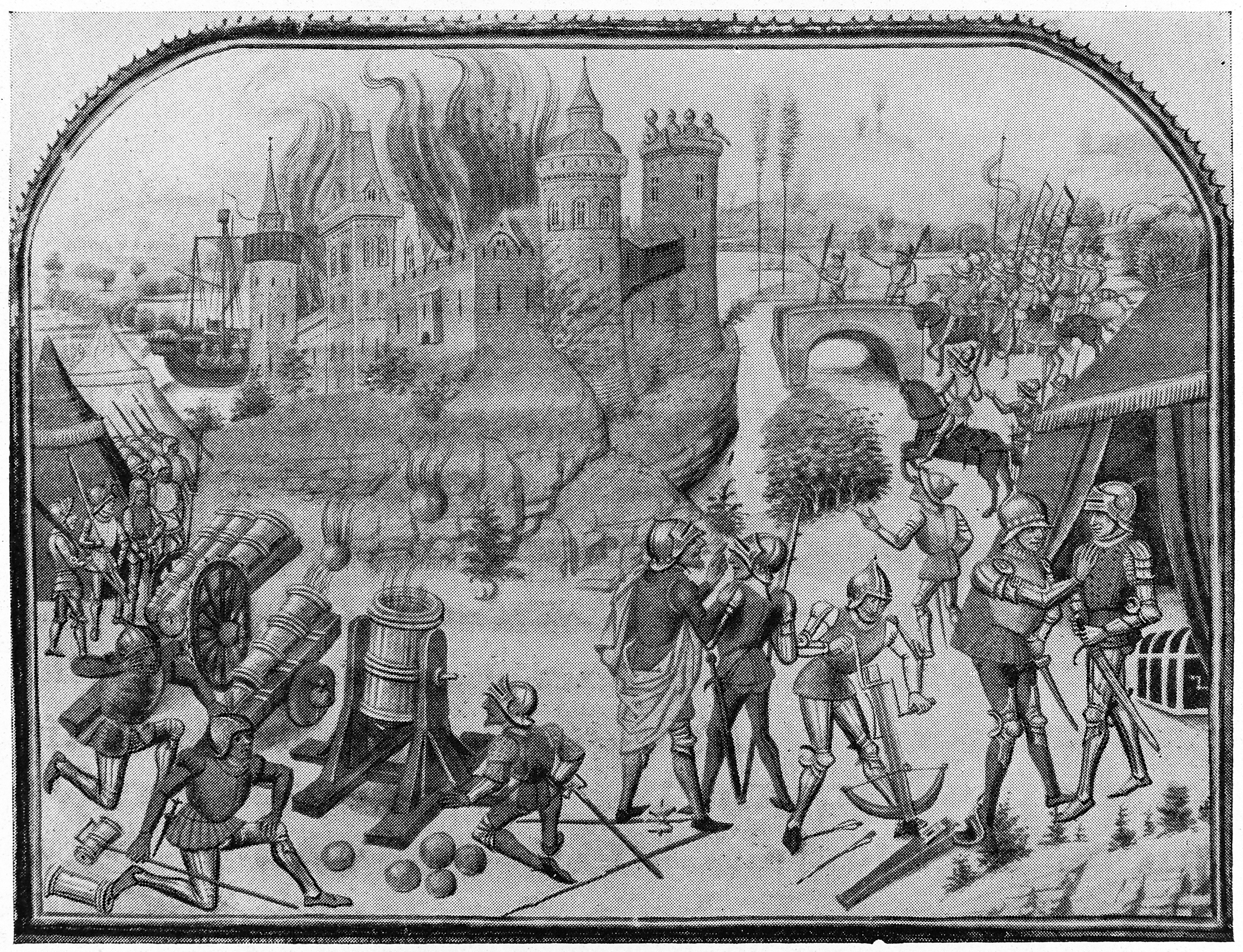 Attack on a castle, circa 1460. A Bombard or Mortar and Cannon shown in action. General Collections Keywords: Military; Military Personnel; History